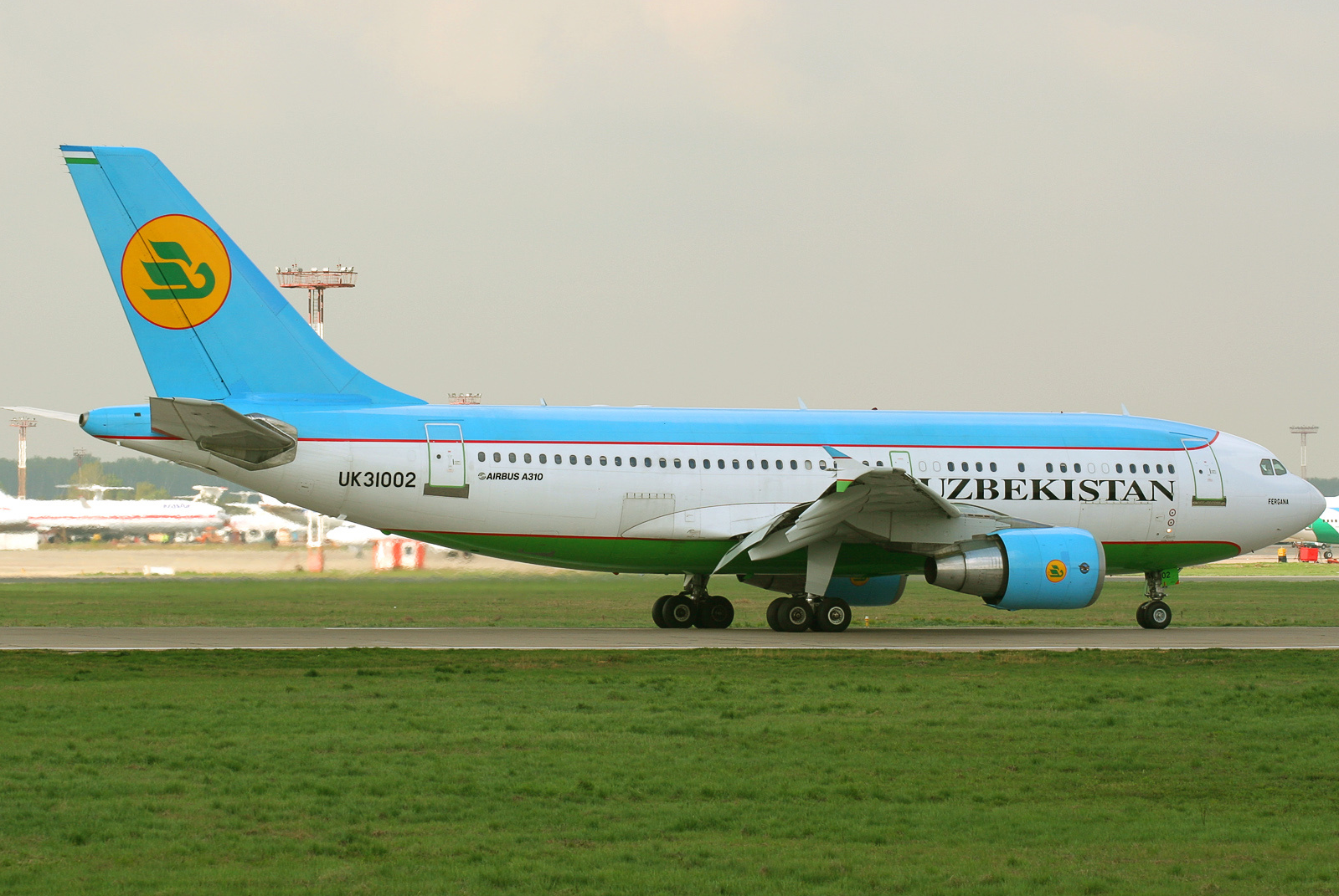 An Uzbekistan Airways Airbus A310-324 @ Domodedovo International Airport (DME/UUDD)